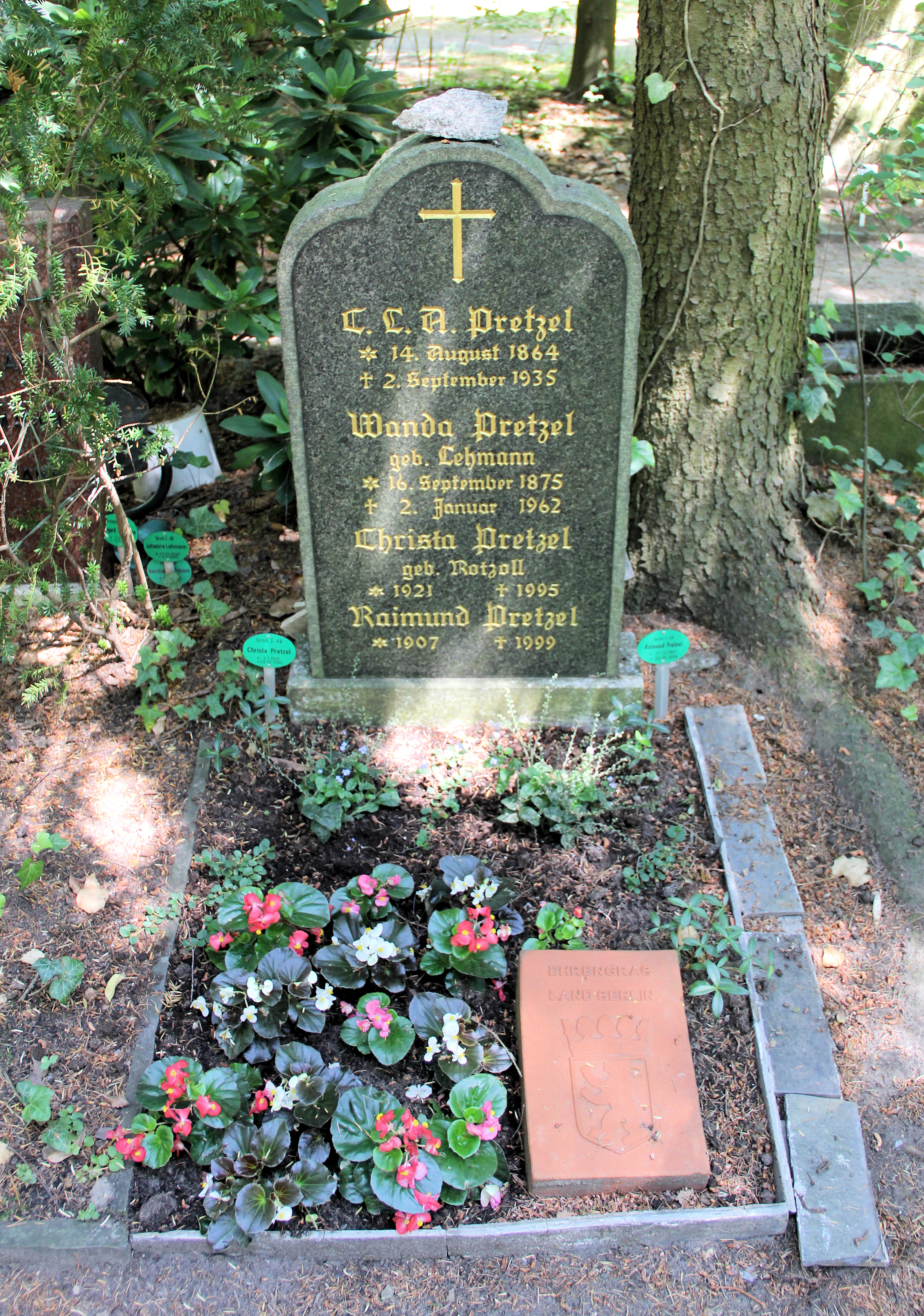 "Ehrengrab" (grave of honor), Sebastian Haffner, Thuner Platz 2-4, Berlin-Lichterfelde, Germany